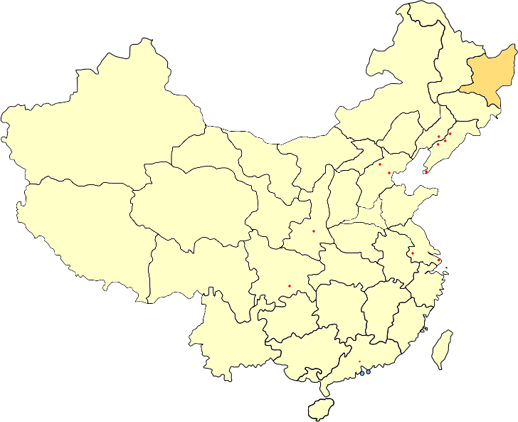 Songjiang province PRC